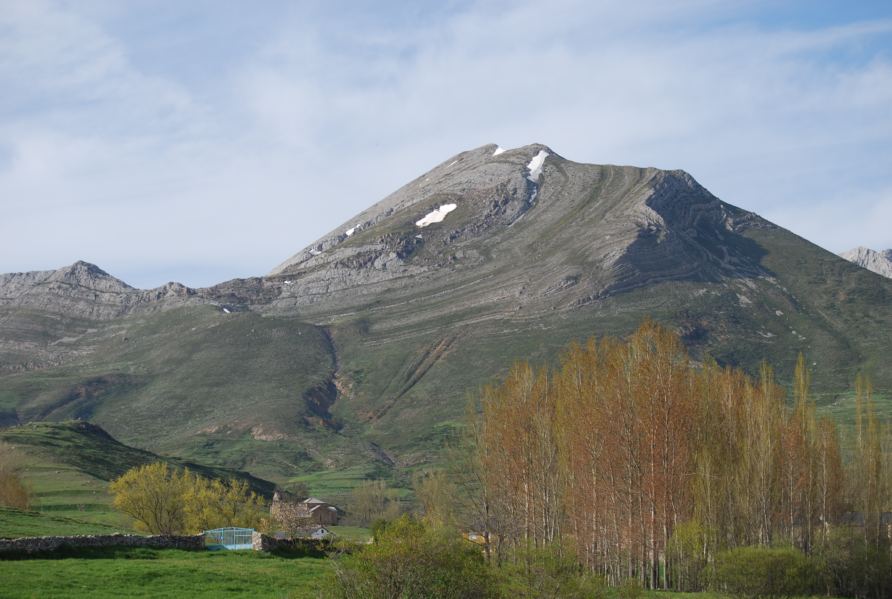 Fold on limestone. Babia, León (Spain)